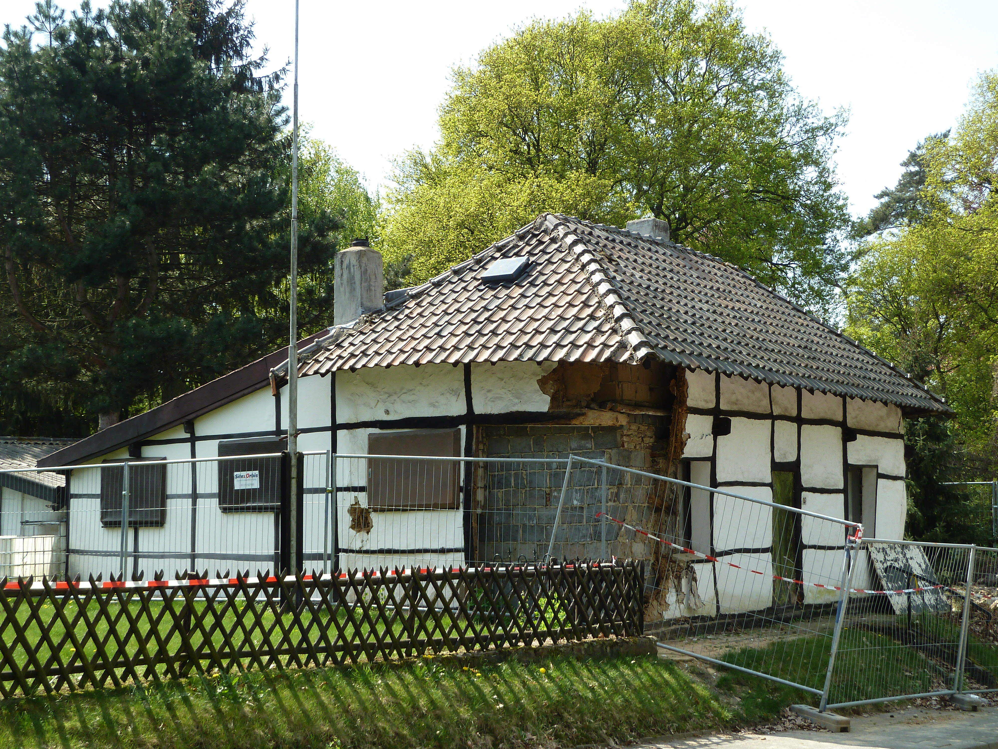 Bouwbergstraat 78, Brunssum, Limburg, the Netherlands